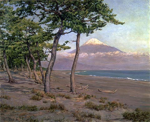 Miho Fuji by Wada Eisaku, Kosugi Hoan Museum of Art, Nikko, Tochigi, Japan